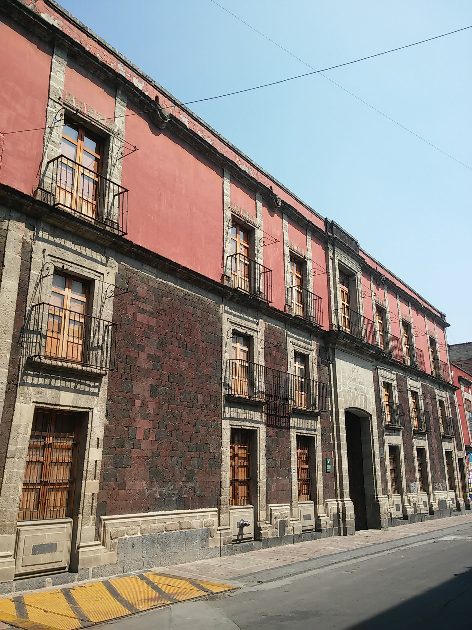 Antiguo seminario de minas en la calle República de Guatemala